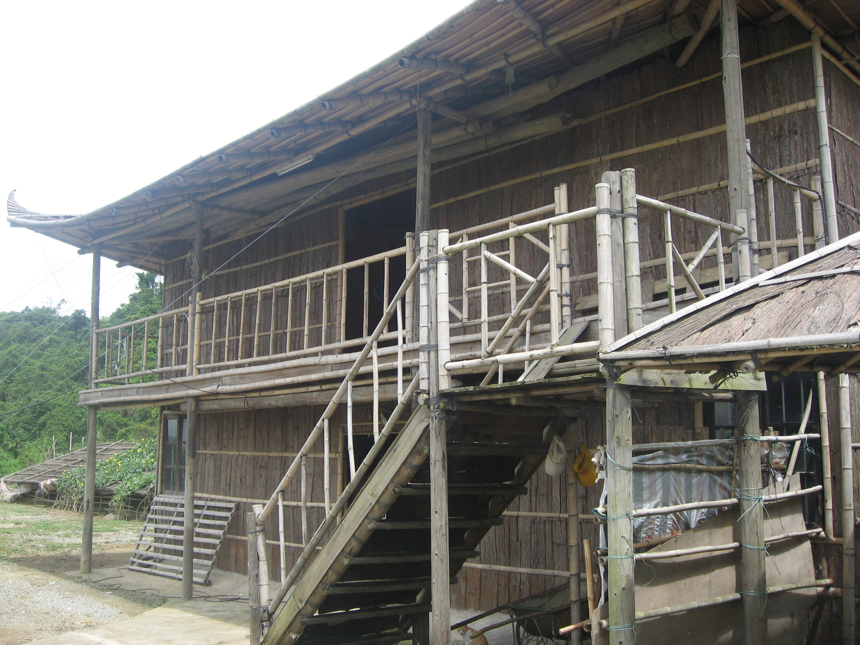 Fisher house on Hengqin island in Zhuhai